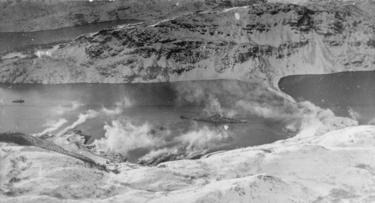 The Royal Navy during the Second World War Photograph shows: Smoke screens put up to hide the TIRPITZ drifting across the waters of the fjord though the ship has not yet been hidden from view.